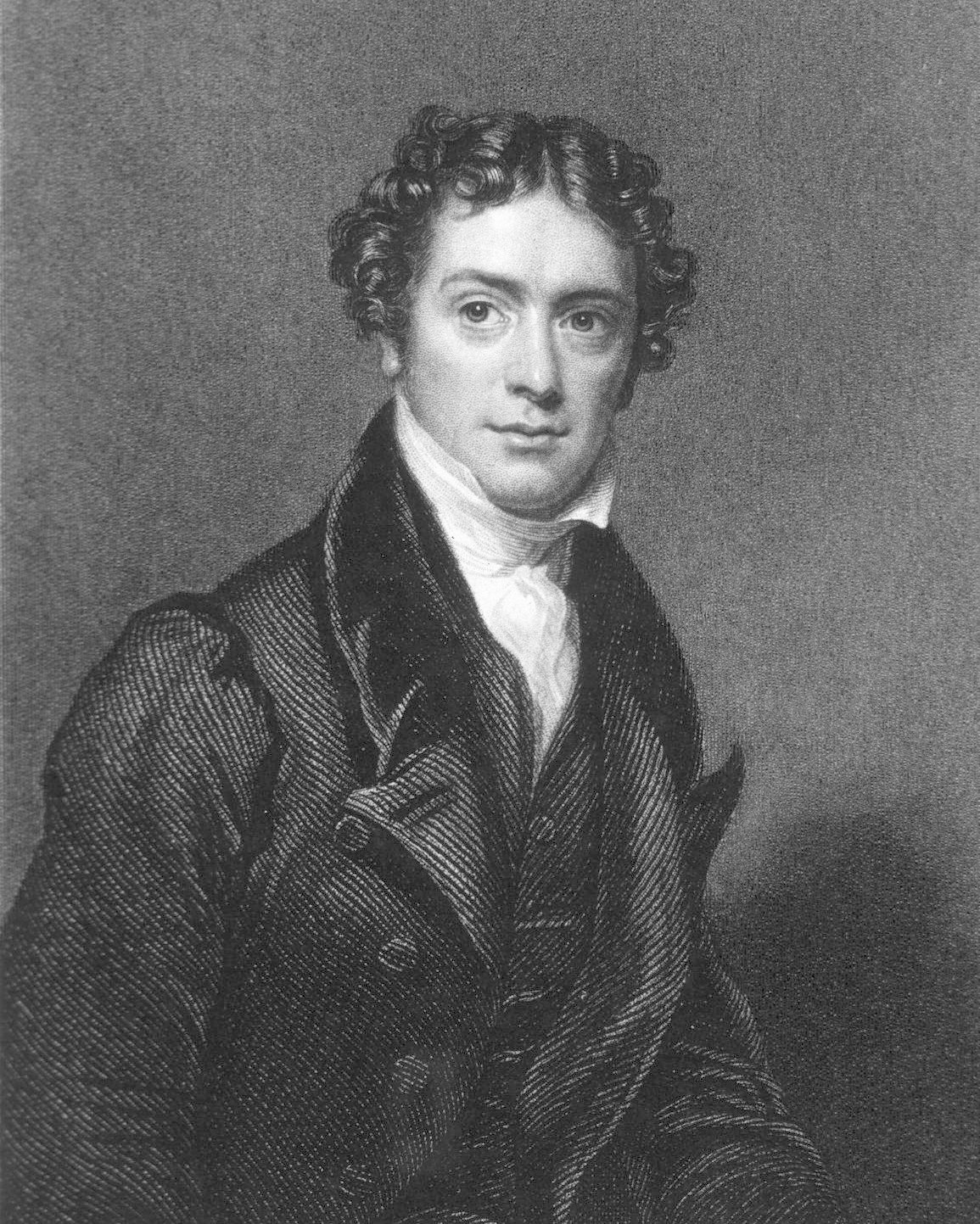 Michael Faraday, (22 September 1791 – 25 August 1867) in his late thirties